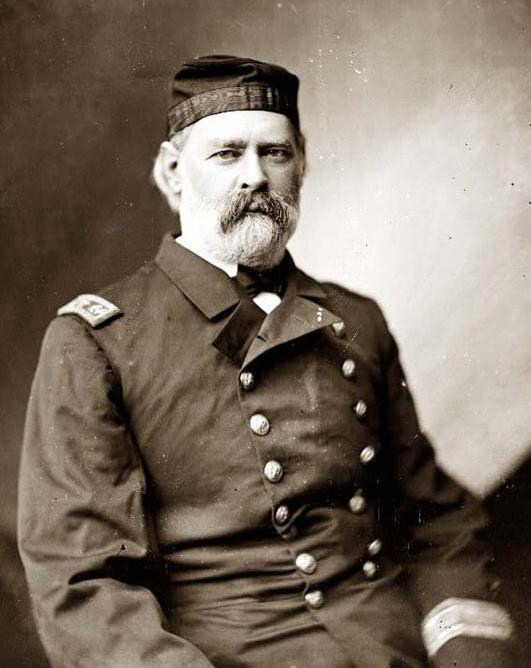 Febiger in his later years